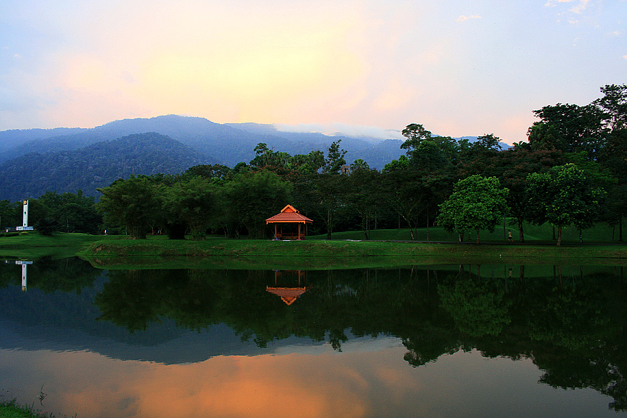 Taiping Lake Gardens, Taiping, Perak, Malaysia